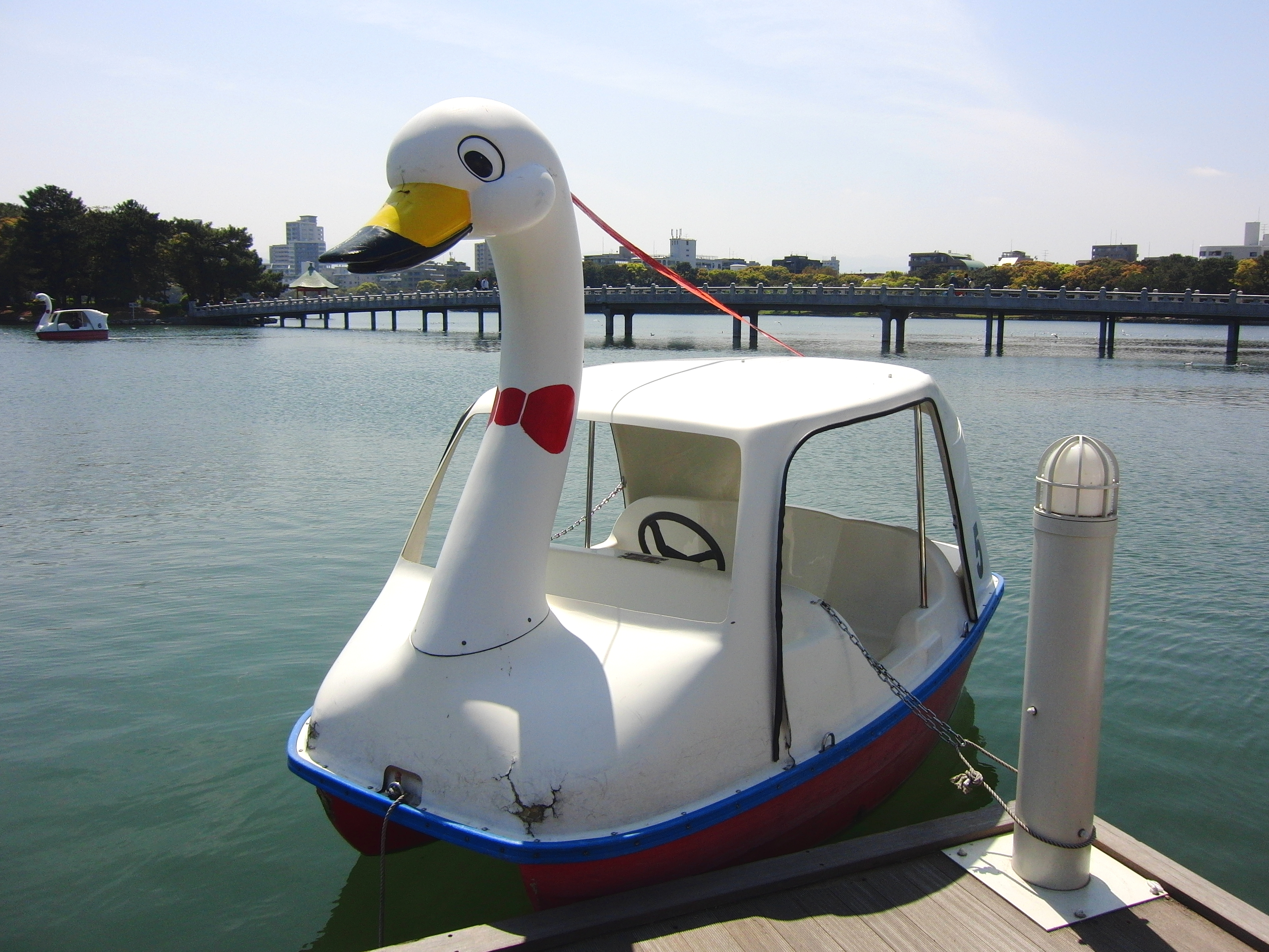 Swan boat at Ohori Park.